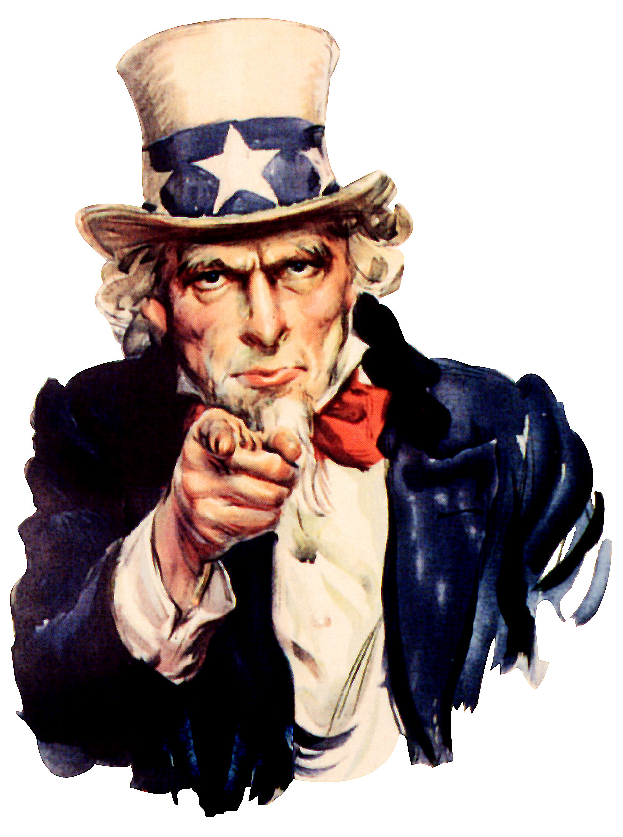 Description: US Propaganda material (for recruiting) Subtext: Uncle Sam needs YOU! Painted by : James Montgomery Flagg in 1916-1917 he:תמונה:Uncle Sam (pointing finger).jpg